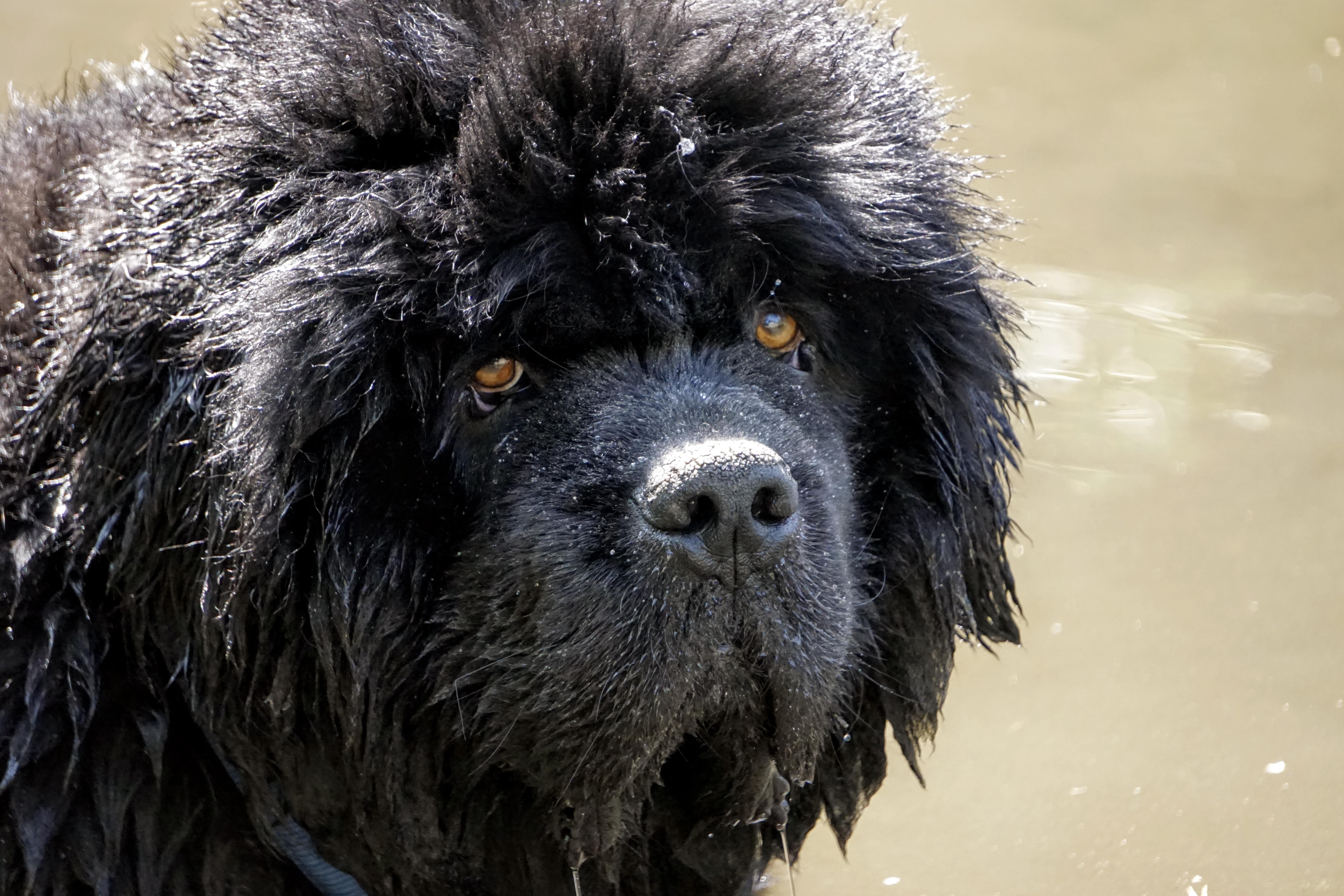 Portrait of a Newfoundland dog named Dragon, where the brown eye color can be appreciated.